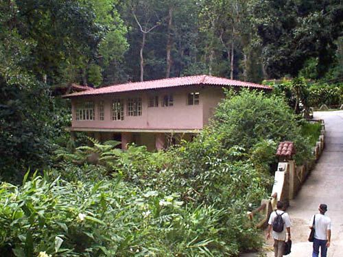 Wilder's stock, La Represa Park, Martha Batista's house, Cuba